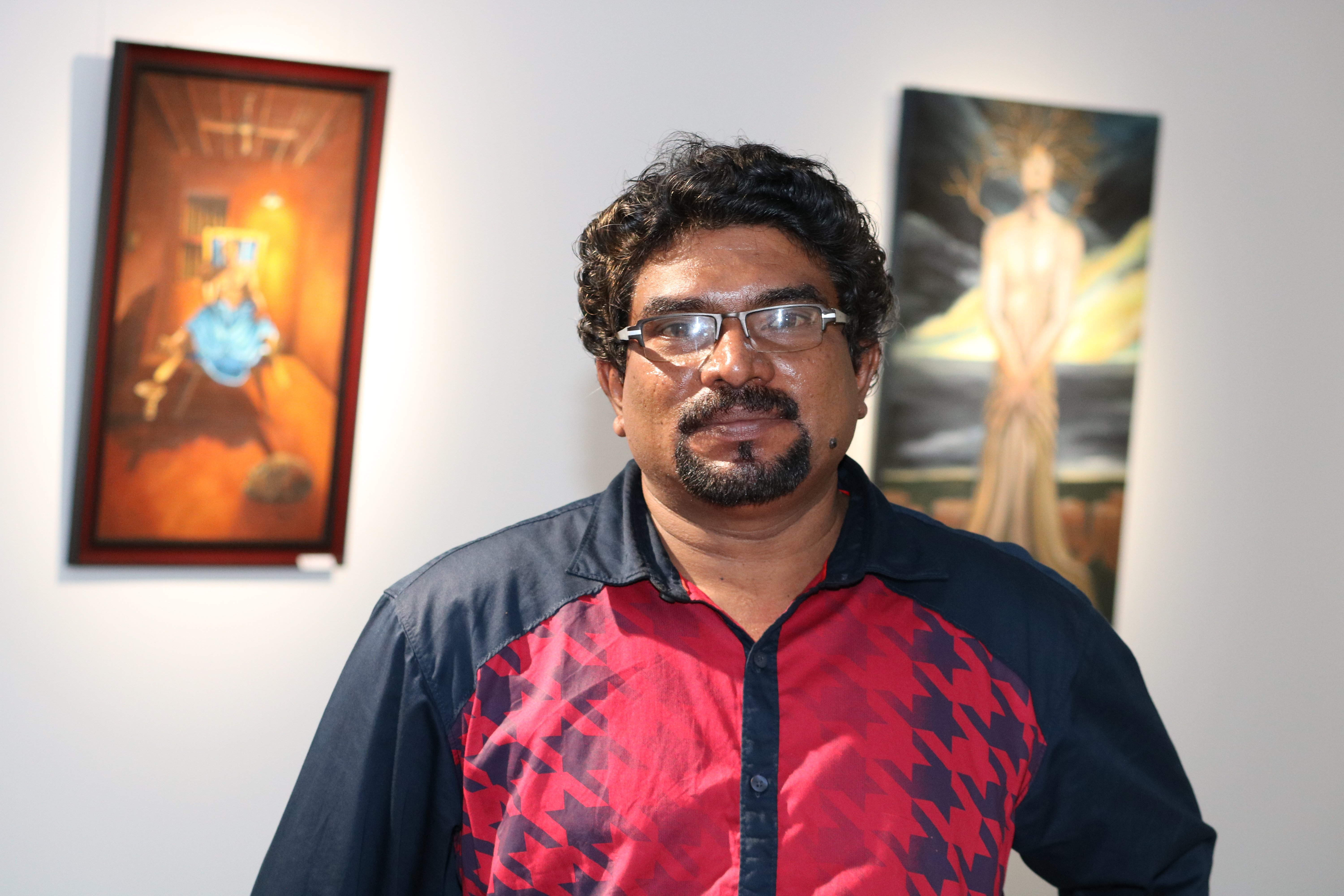 Artist Asramom Santhosh